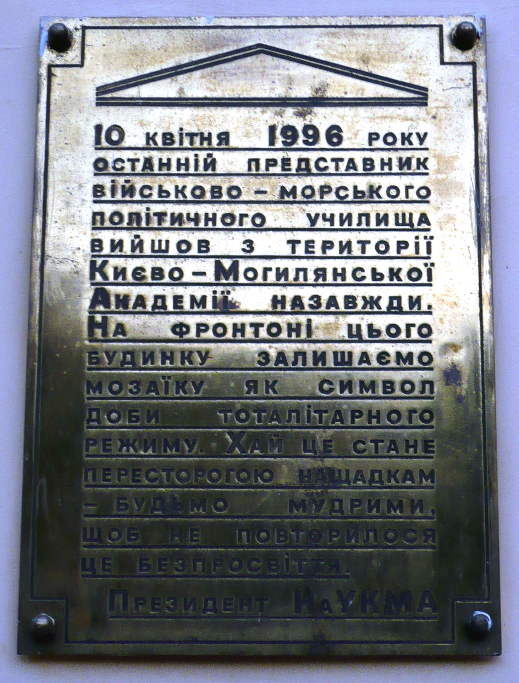 Plaque at NaUKMA — stating when the last graduates of the military school left the buildings of the Kyiv-Mohyla academy.